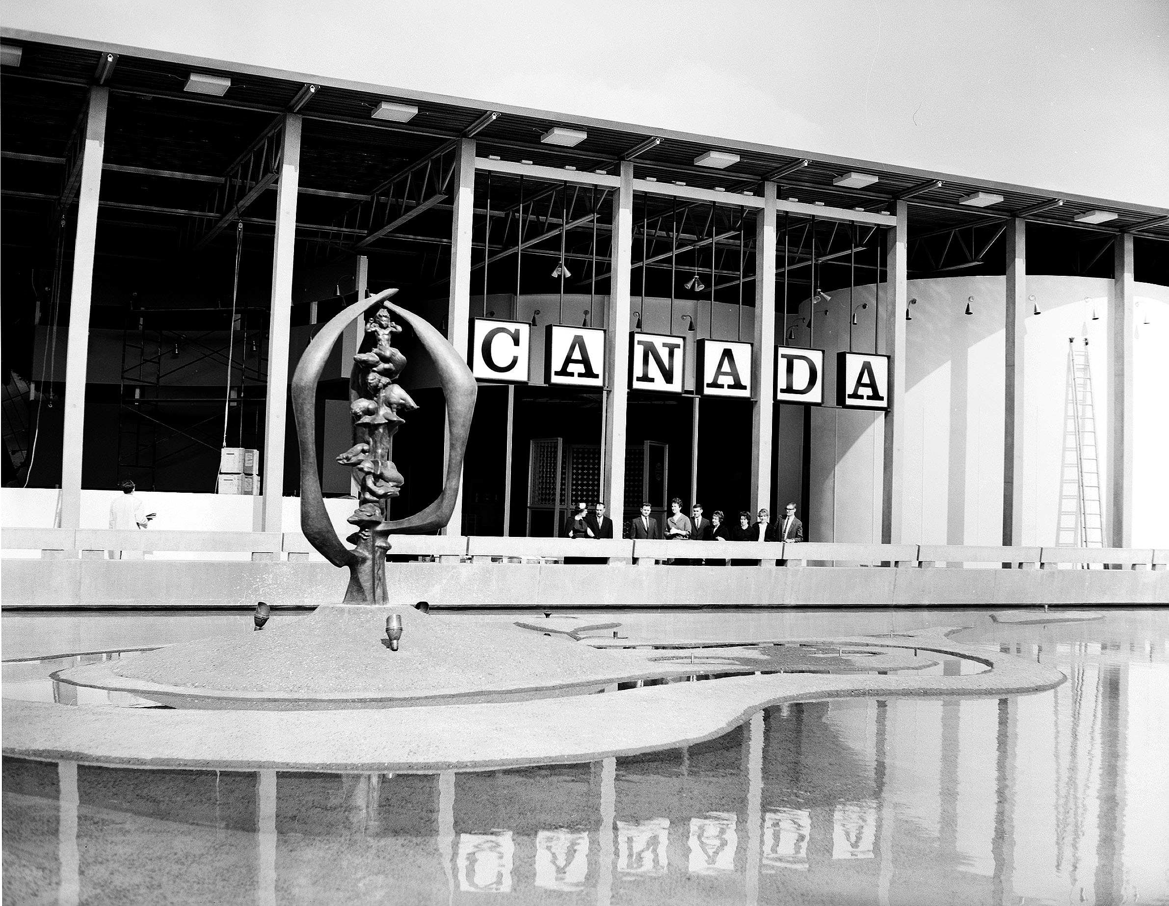 Canada Building at Century 21 Exposition, Seattle, Washington, 1962. This is now part of the Northwest Court of Seattle Center. The DuPen Fountain in the foreground is still there, although it has been somewhat reconfigured. Item 165715, City Light Photographic Negatives (Record Series 1204-01), Seattle Municipal Archives.